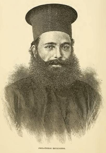 Philotheos Bryennios, Portrait